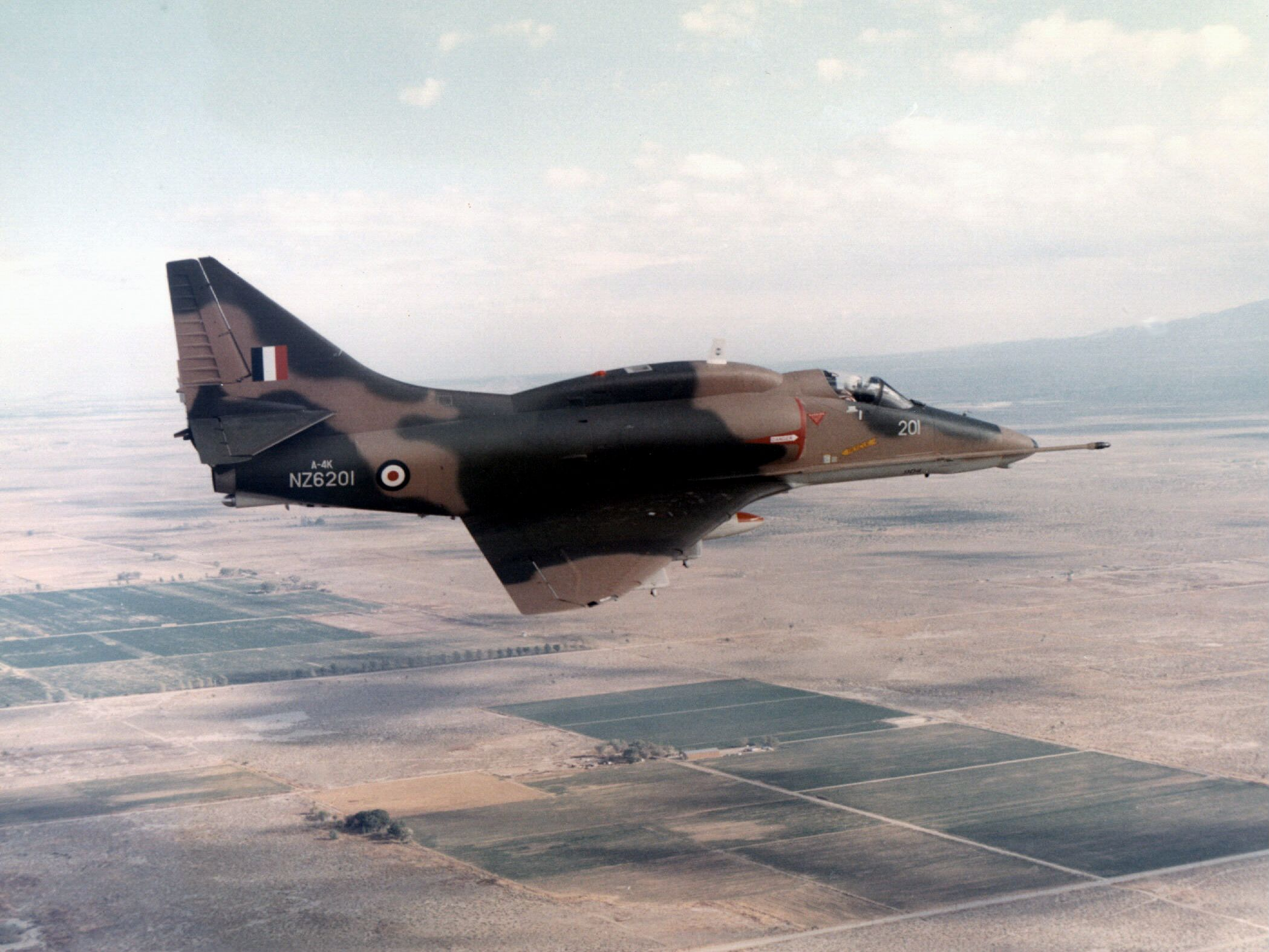 The first Royal New Zealand Air Force Douglas A-4K Skyhawk (U.S. Navy BuNo 157904, NZ6201) in flight. It made its first flight on 10 November 1969 with test pilot W.S. Smith at the controls and was retired from service in December 2001.